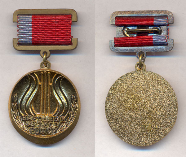 Soviet Badge People's Artist of the Russian SFSR